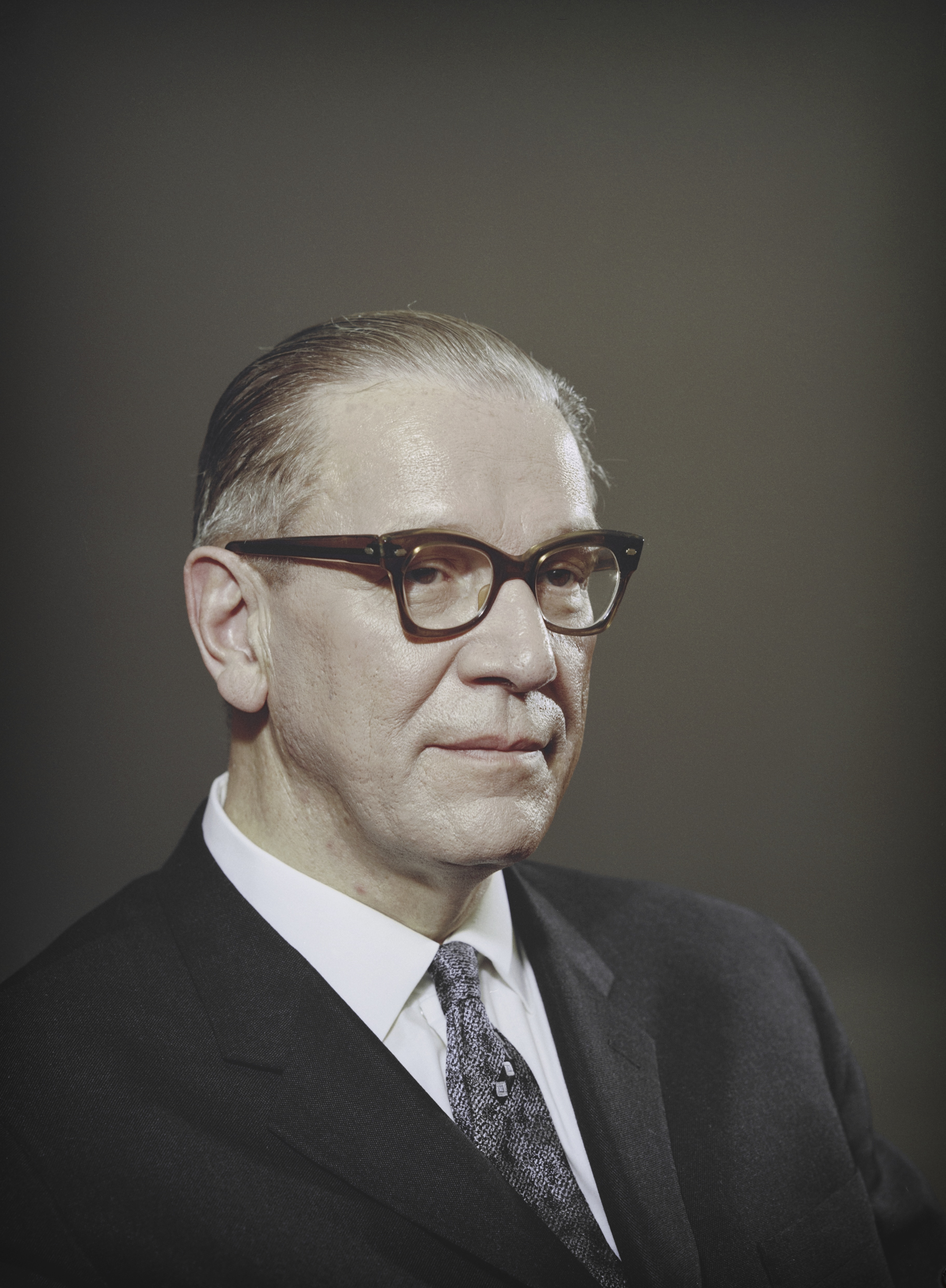 Photograph of the Finnish politician Toivo A. Wiherheimo (1898–1970).